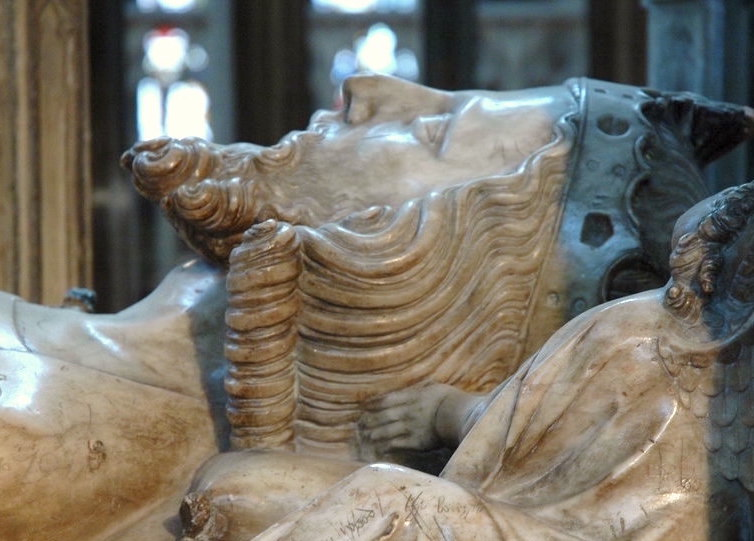 Edward II - detail of tomb